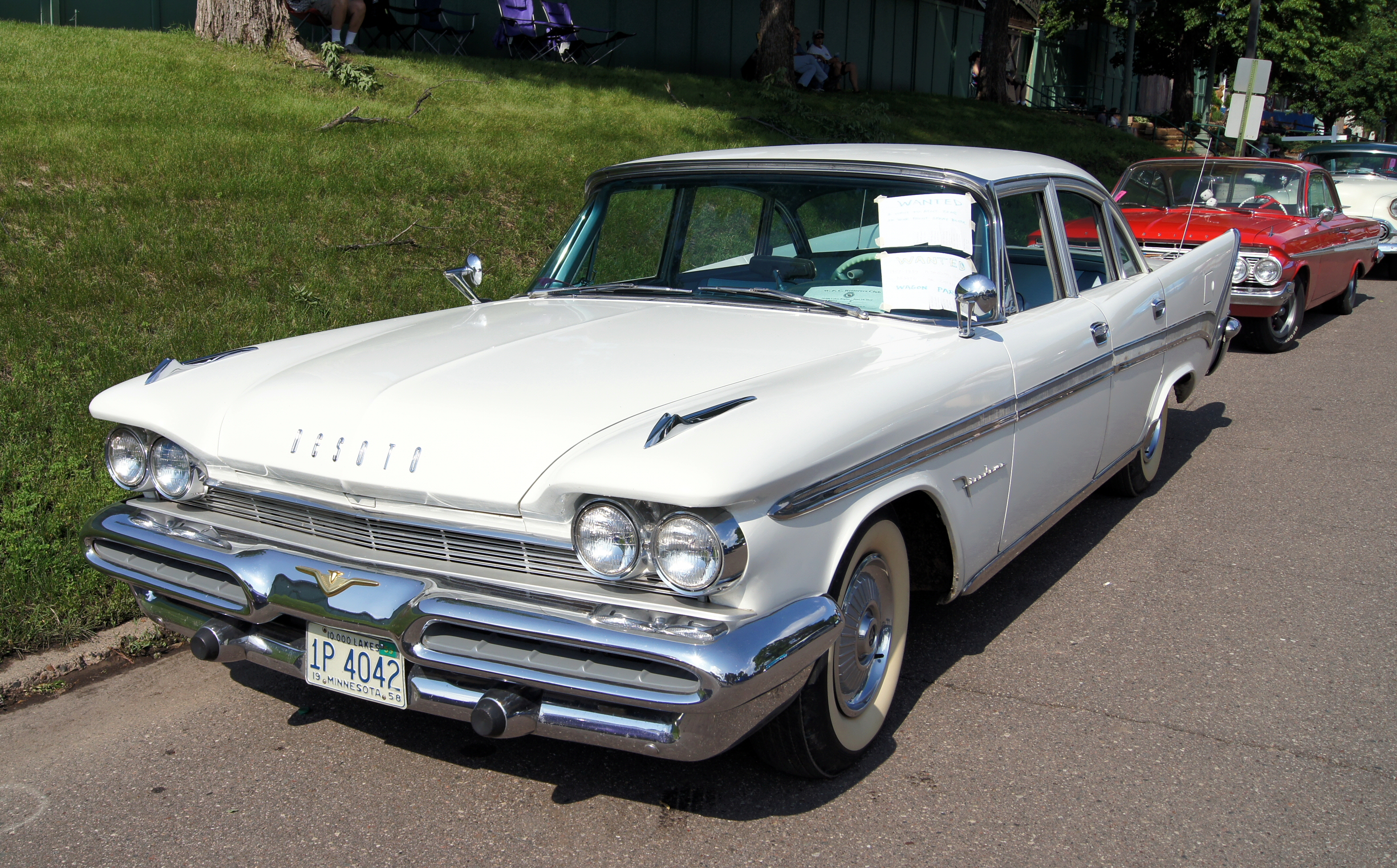 MSRA “BACK TO THE 50′s” 40th ANNIVERSARY June 21-23, 2013 State Fairgrounds St. Paul Minnesota More Car Pictures